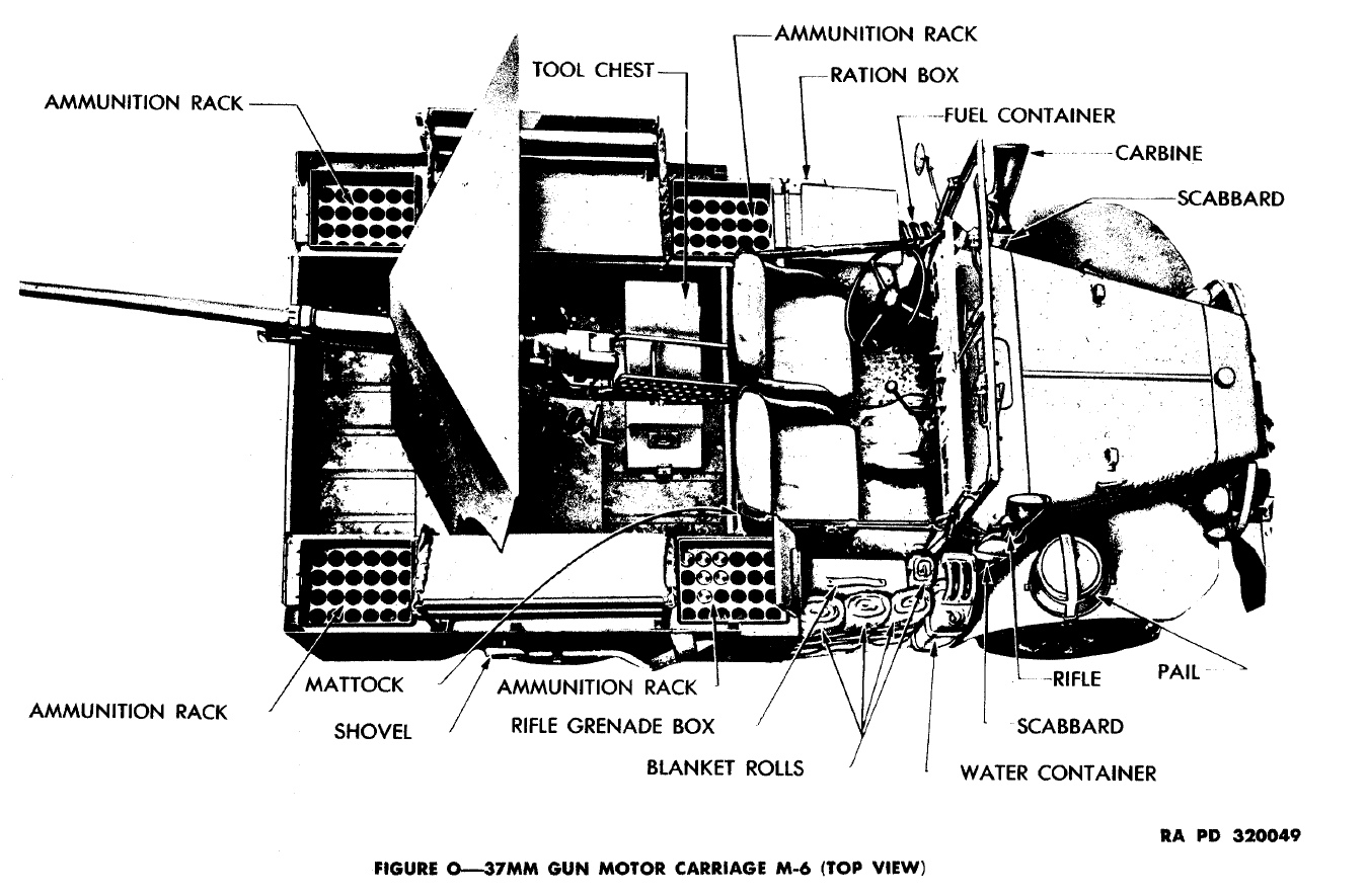 Dodge WC-55 M6 Gun Motor Carriage Top schematic from TM9-808